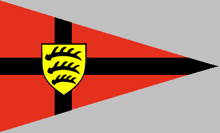 Yacht club flag